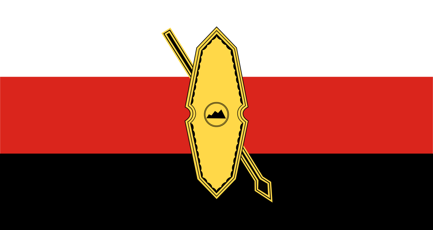 Flag of Bukidnon